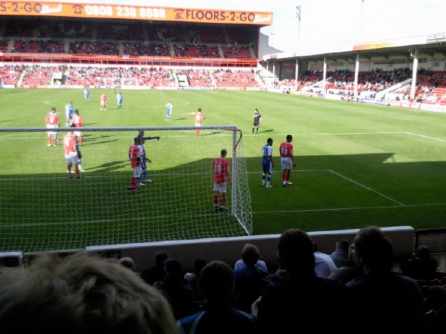 I took this picture on Saturday